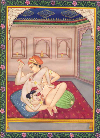 Kama Sutra Illustration